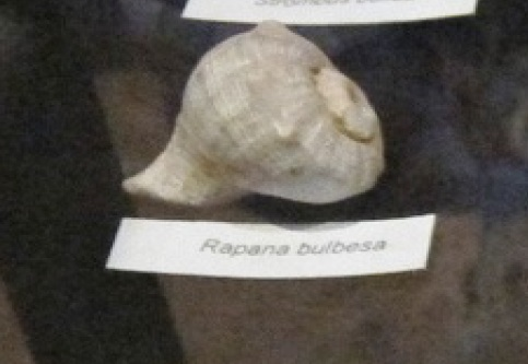 Rapana bulbosa shell specimen, cropped from a large photograph of the shells that Jose Rizal collected in Dapitan. Large photograph was taken last December 2011 in Rizal Shrine (Museum), Fort Santiago, Intramuros, Manila.